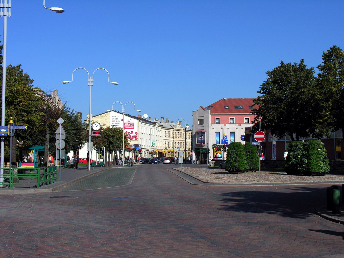 Kuldigas street in Ventspils